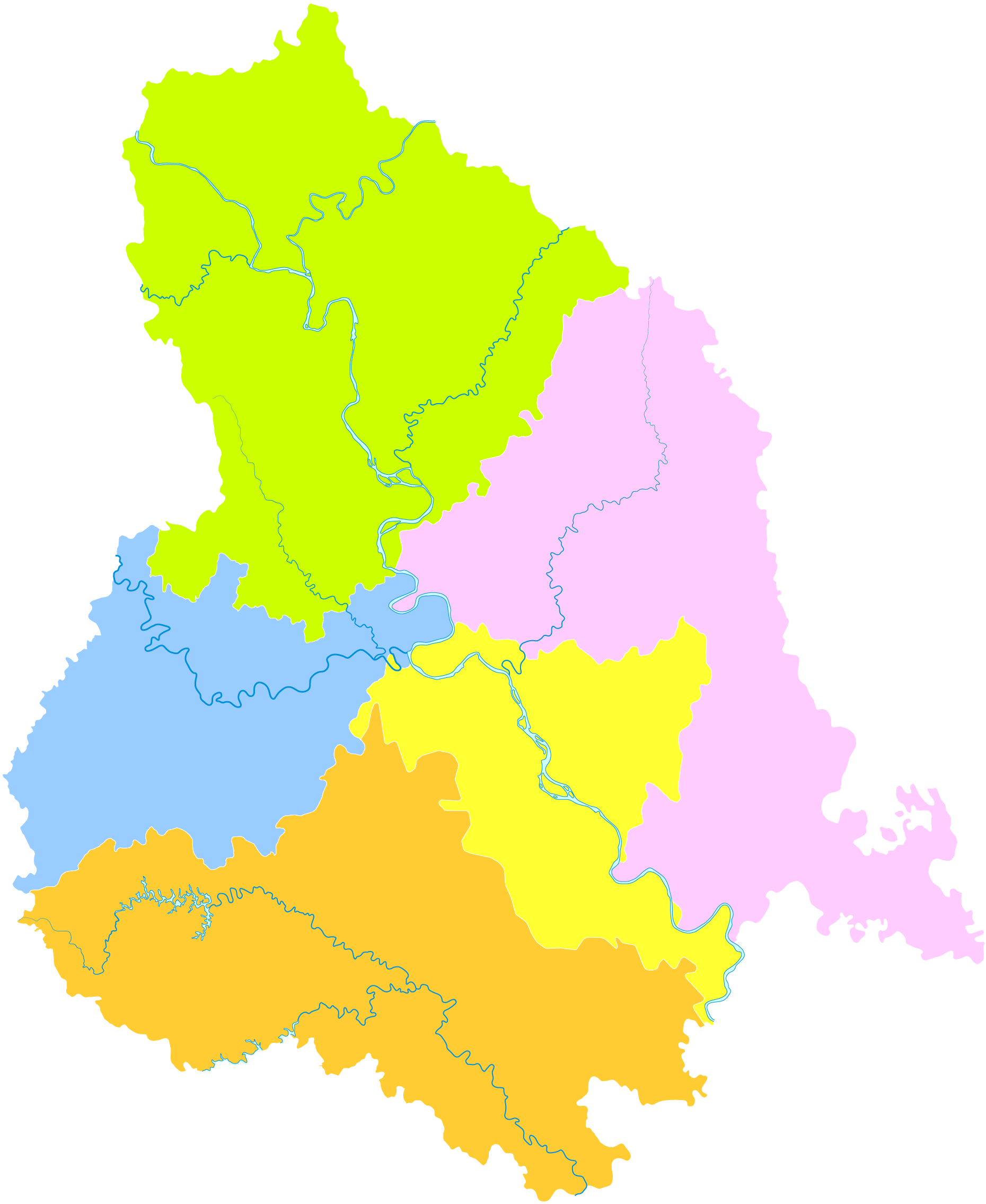 administrative divisions of Suining City, Sichuan, China